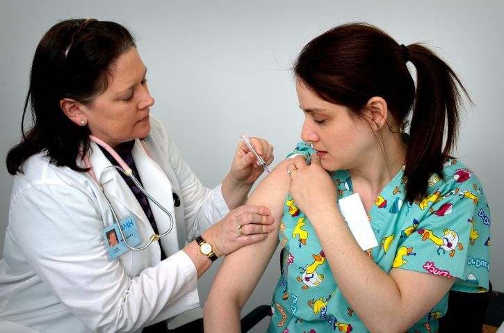 A woman being vaccinated by a healthcare professional.